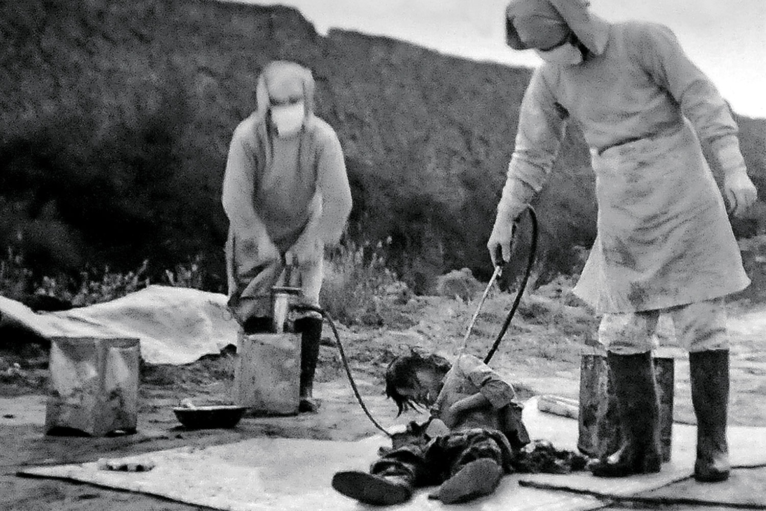 A photograph released from Jilin Provincial Archives, which, according to Xinhua Press, "shows personnels of 'Manchukuo' attend a 'plague prevention' action which indeed is an bacteriological test directed by Japan's 'Unit 731' in November of 1940 at Nong'an County, northeast China's Jilin Province."